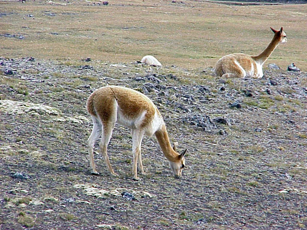 Vicuna (Vicugna vicugna) in the wild, Andes, North of the city of La Paz, Bolivia.